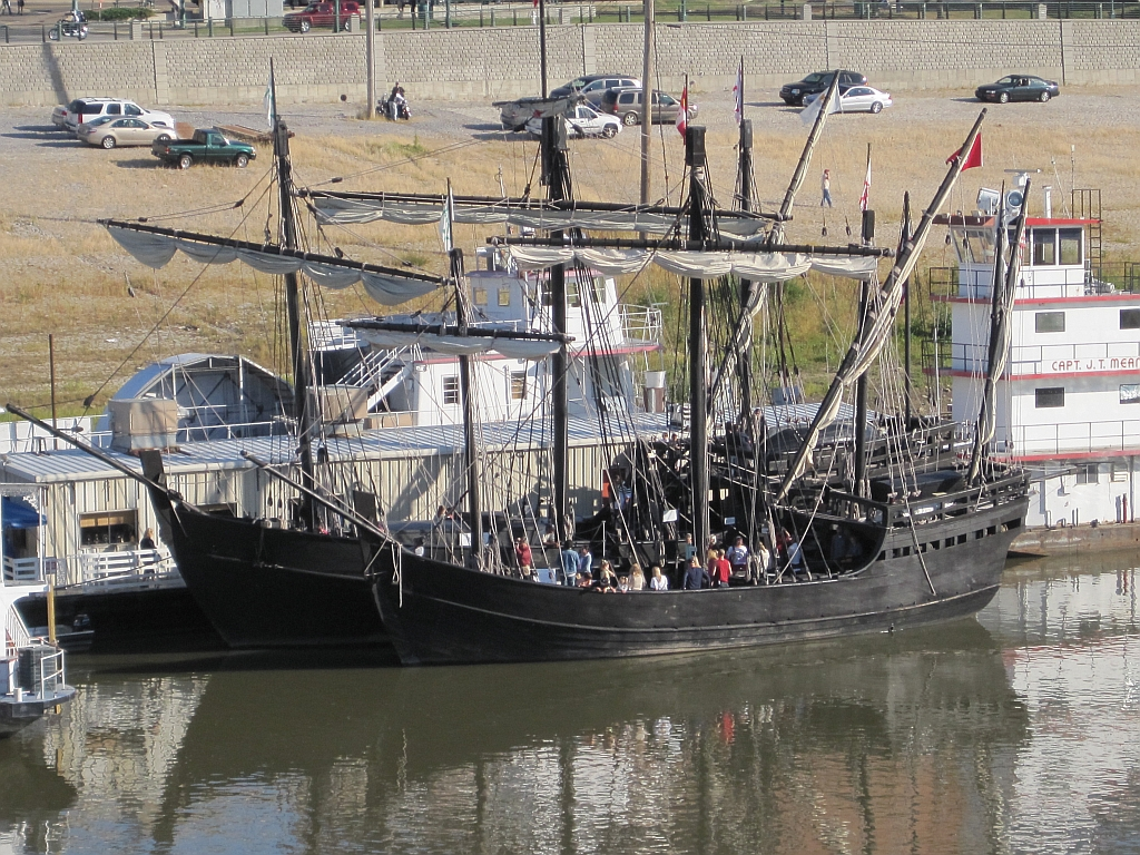 La Niña (in the foreground) & La Pinta (background), replicas of Columbus' ships in Memphis.